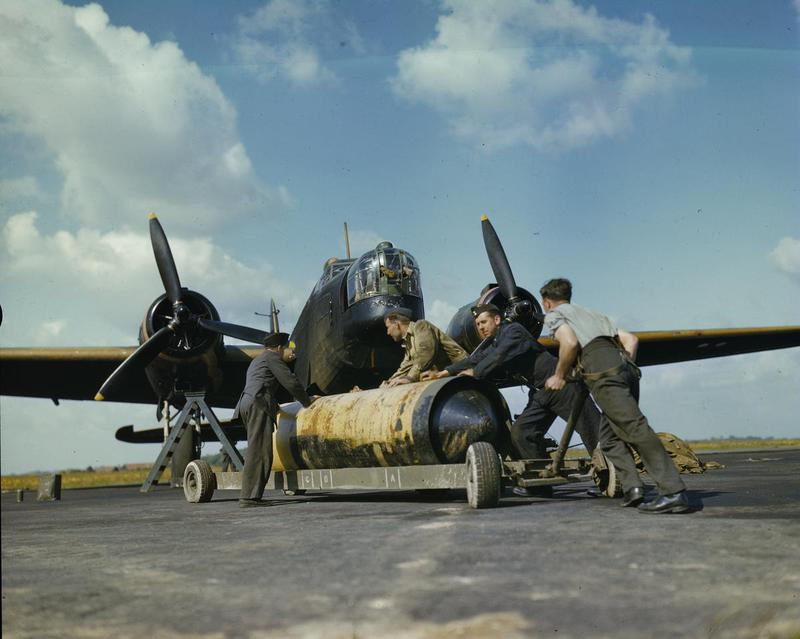 Royal Air Force ground crew push a 4,000lb blast bomb towards the bay of a Vickers Wellington bomber of No 419 Squadron, Royal Canadian Air Force at RAF Mildenhall.